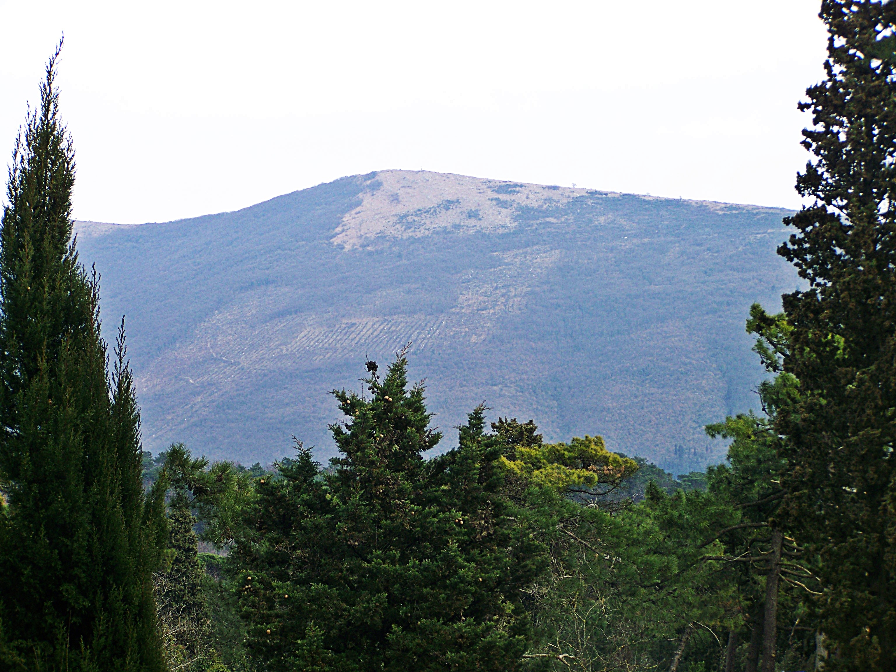 mountains